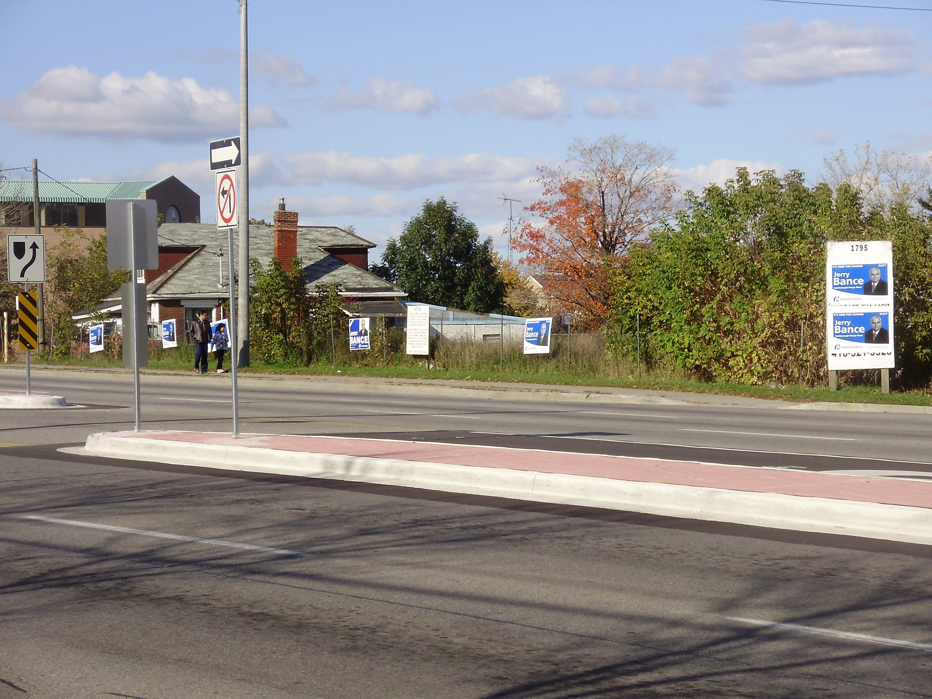 Political signs for Conservative Party of Canada candidate Jerry Bance line Markham Road in the federal riding of Scarborough—Rouge River, four days after the 40th General Election. The Liberal Party candidate won this riding by a margin of more than 35%.